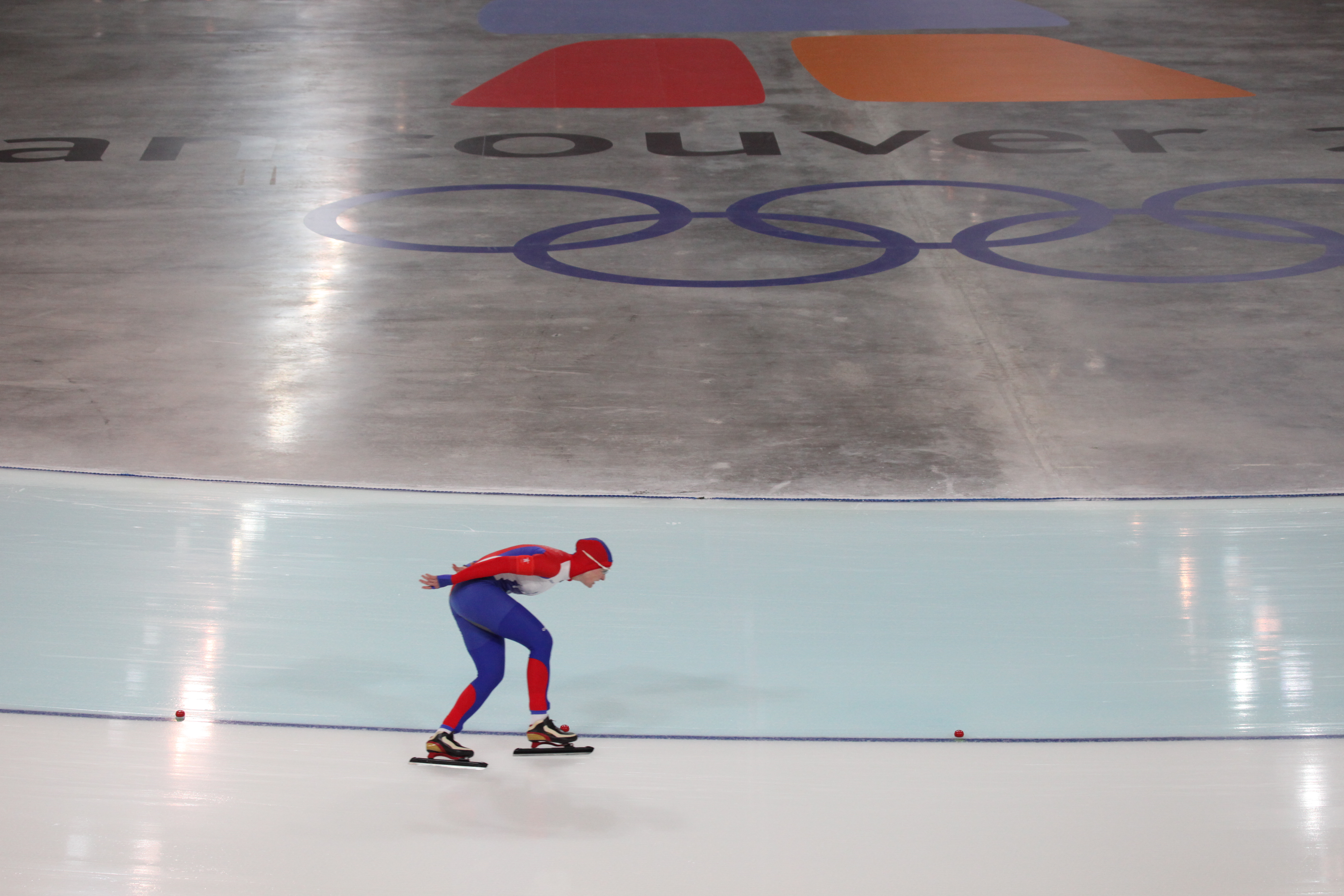 Svetlana Vysokova at the Women's 5000m final.